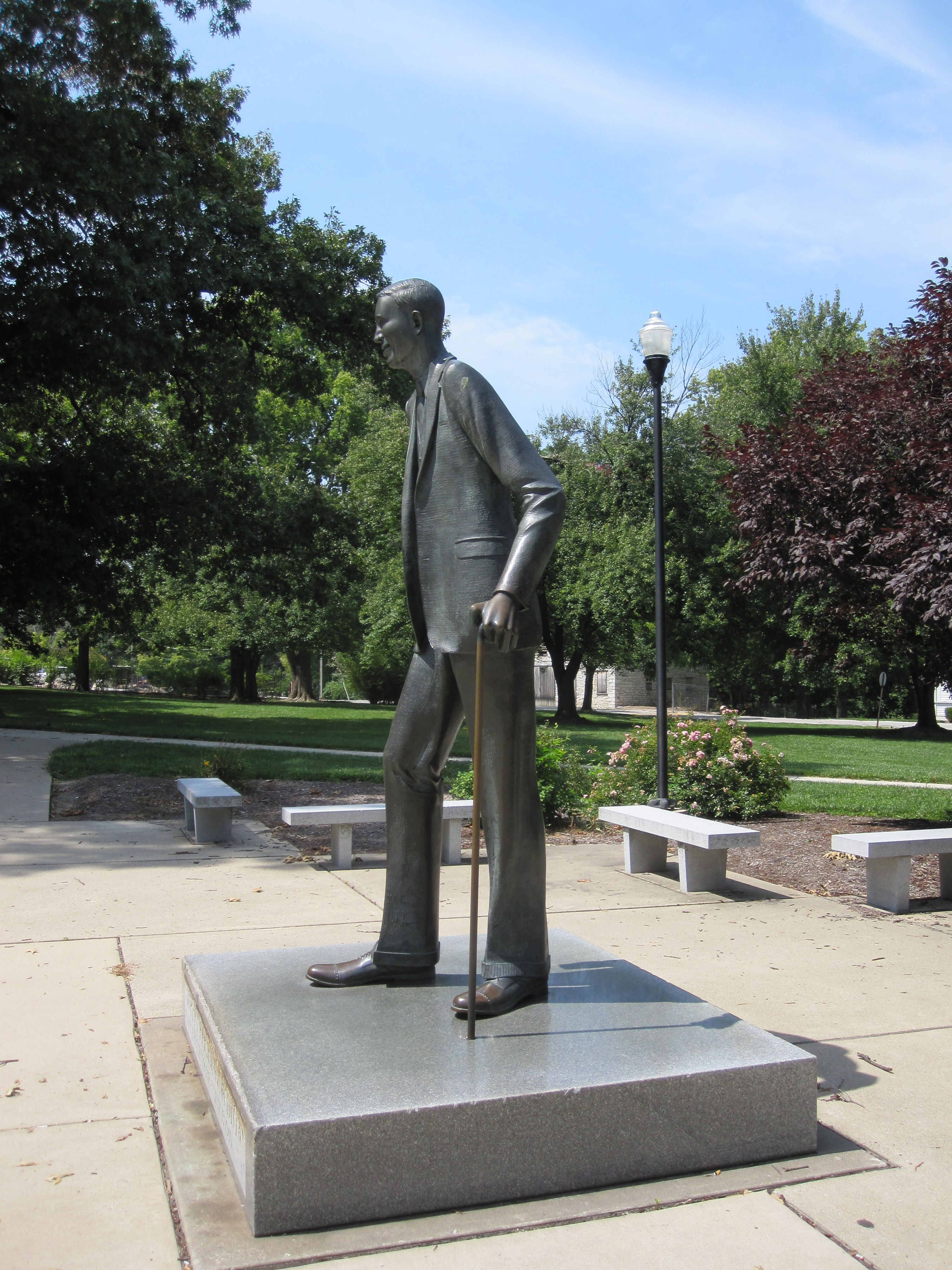 statue of Robert Wadlow in Alton, Illinois, outside Alton Museum of History and Art on the campus of the Southern Illinois University School of Dental Medicine, August 2009